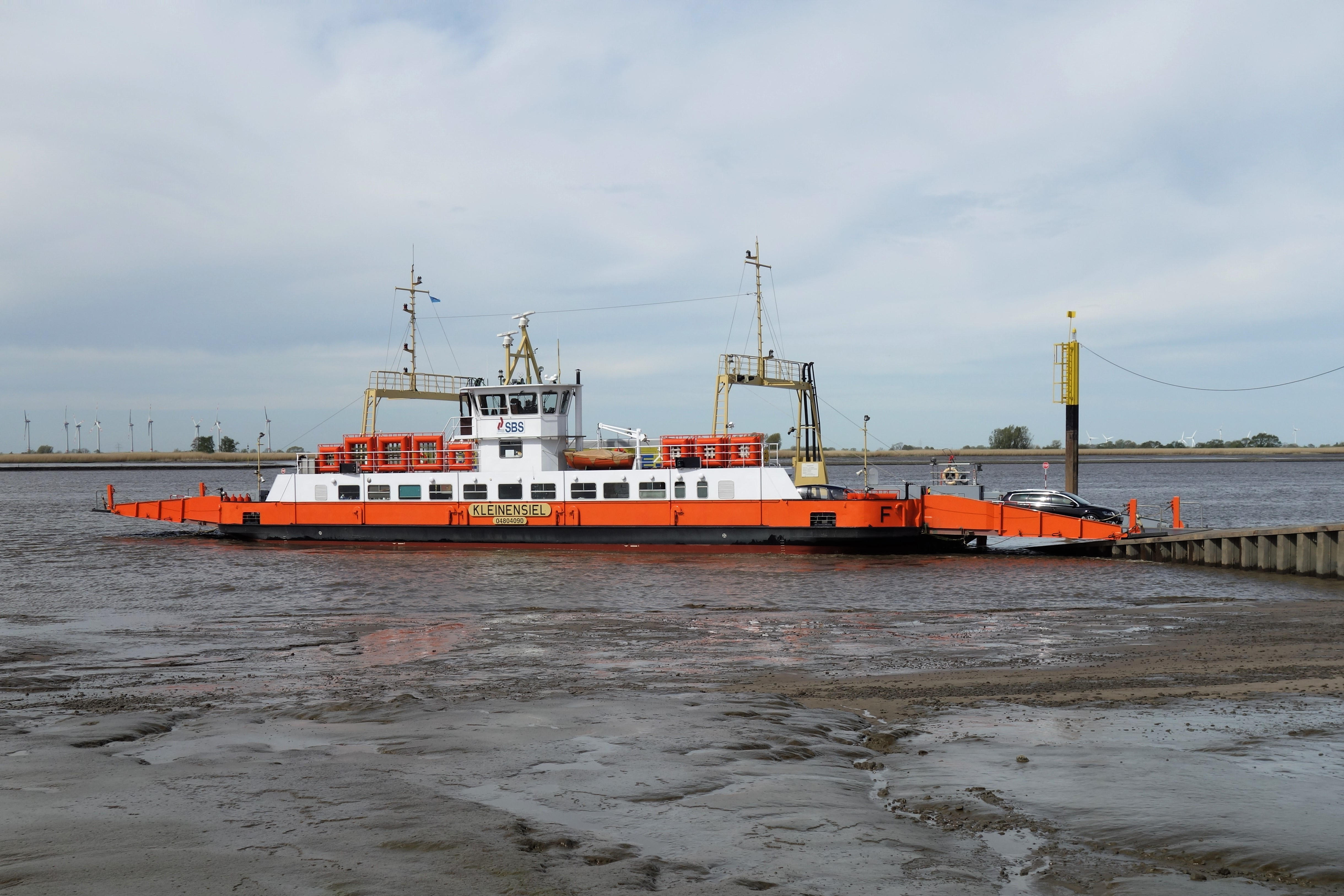 Double ended ferry Kleinensiel at the ramp Sandstedt